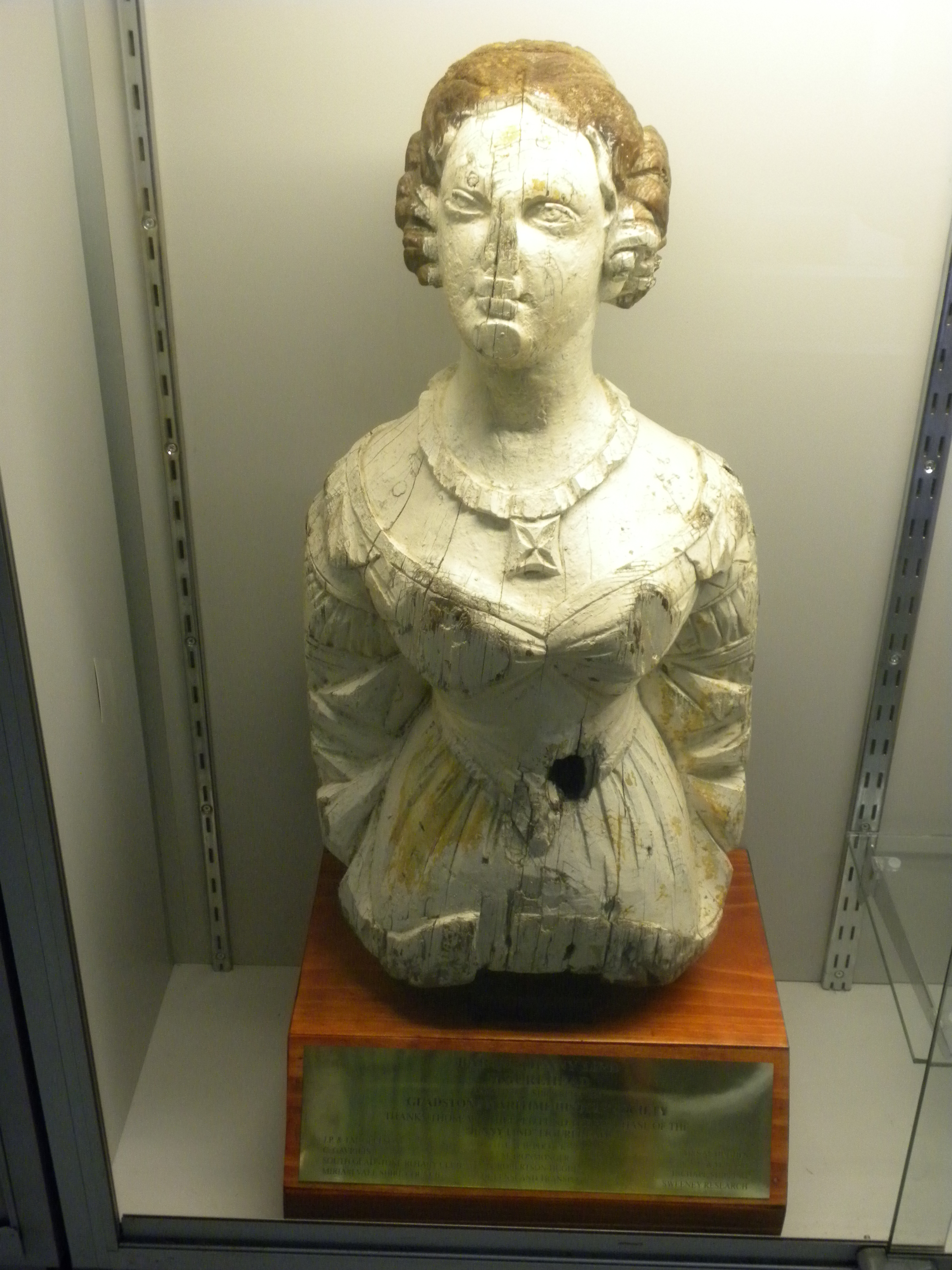 Exhibits at Gladstone Maritime Museum, Central Queensland, Australia. Jenny Lind figurehead from the barque Jenny Lind - carved 1847 - shipwrecked 1850. the Jenny Lind was a wooden Barque vessel of 484 or 475? ton built in Quebec CANADA Launched Thursday, 15 July 1847 by T.C. Lee, Esq., from his ship-yard, at St. Roch and registered in Plymouth (Registered number: 15/1848) under the owner Brent & Co